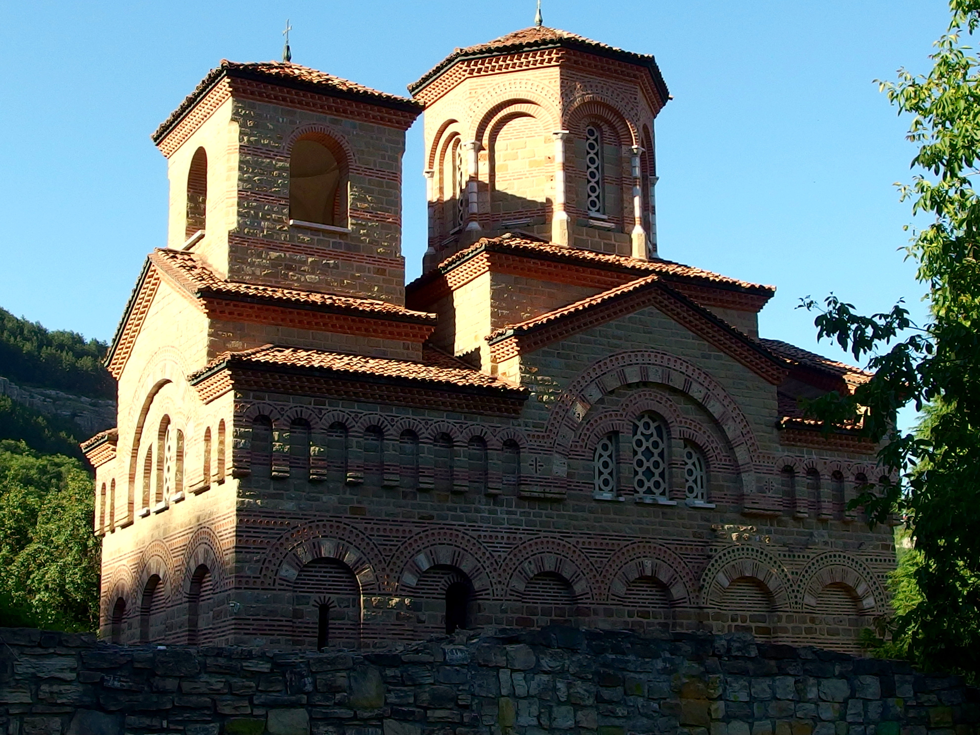 2014-06-23 in Veliko Tarnovo.